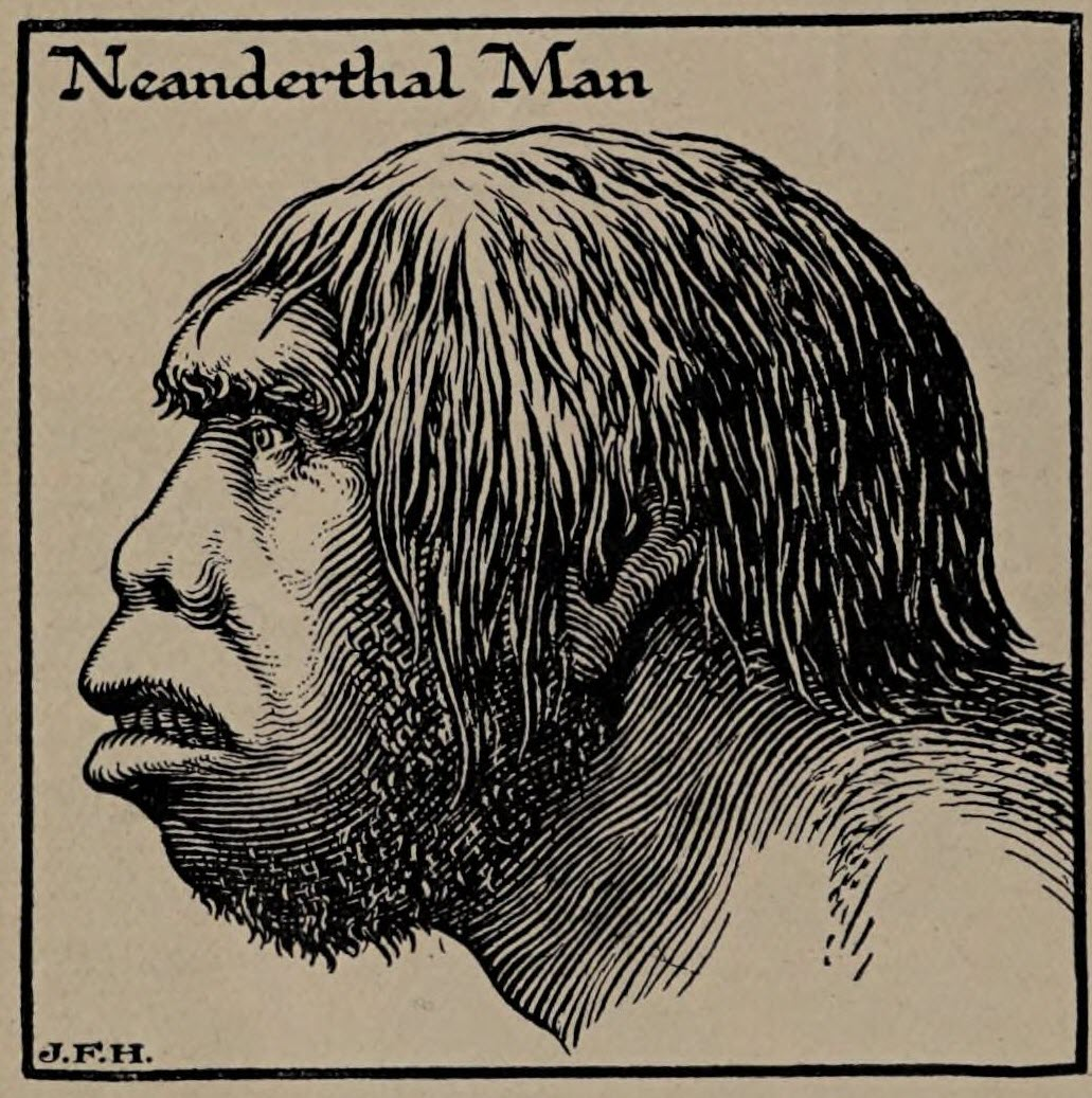 Illustration from page 39 of The outline of history; being a plain history of life and mankind, the definitive edition revised and rearranged by the author, by H.G. Wells, illustrated by J. F. Horrabin, showing Neanderthal Man